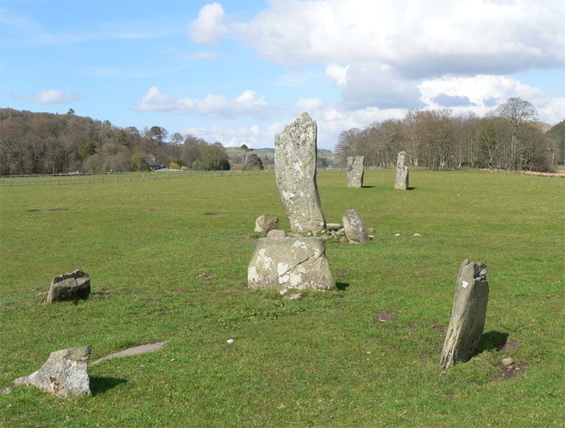 Nether Largie Standing Stones, Kilmartin Glen, Scotland - three out of six